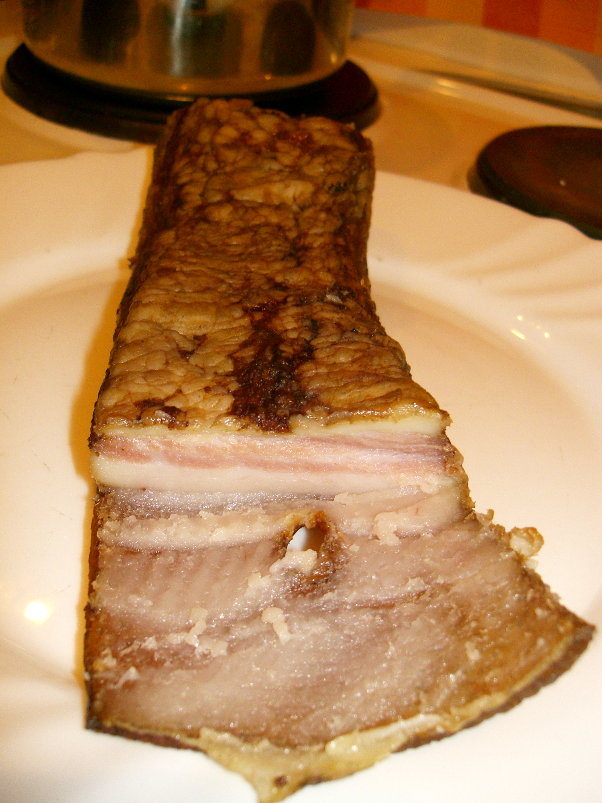 Homemade "lard" (speck), Czech Republic